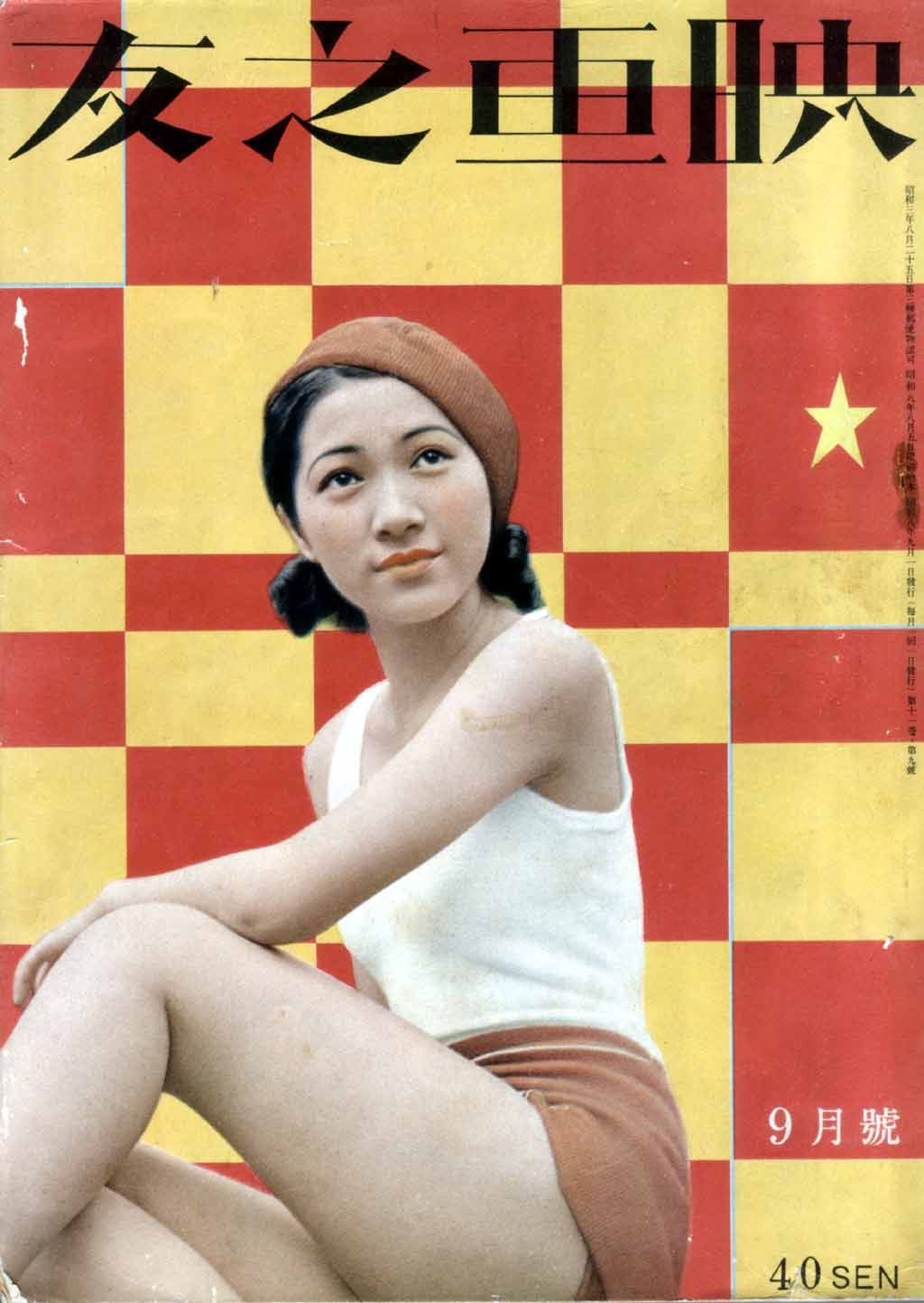 Japanese actress Sumiko Mizukubo on magazine cover for 'Eiga no Tomo', September 1933.